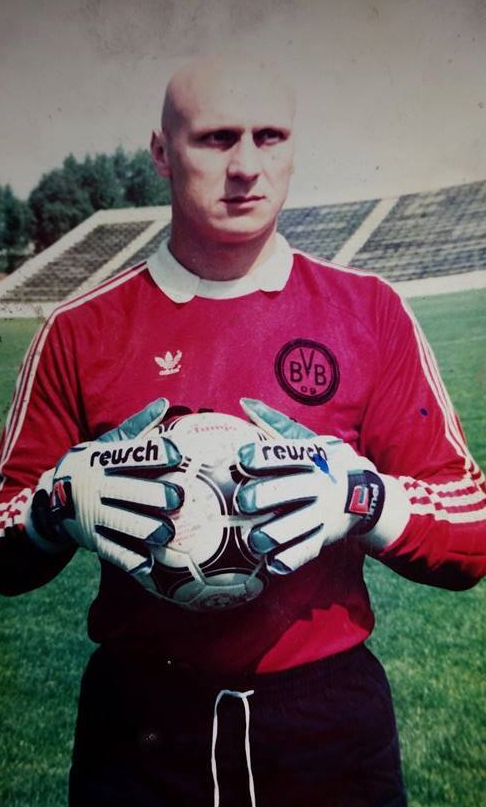 Marcel Lăzăreanu (in the middle) in 1988.